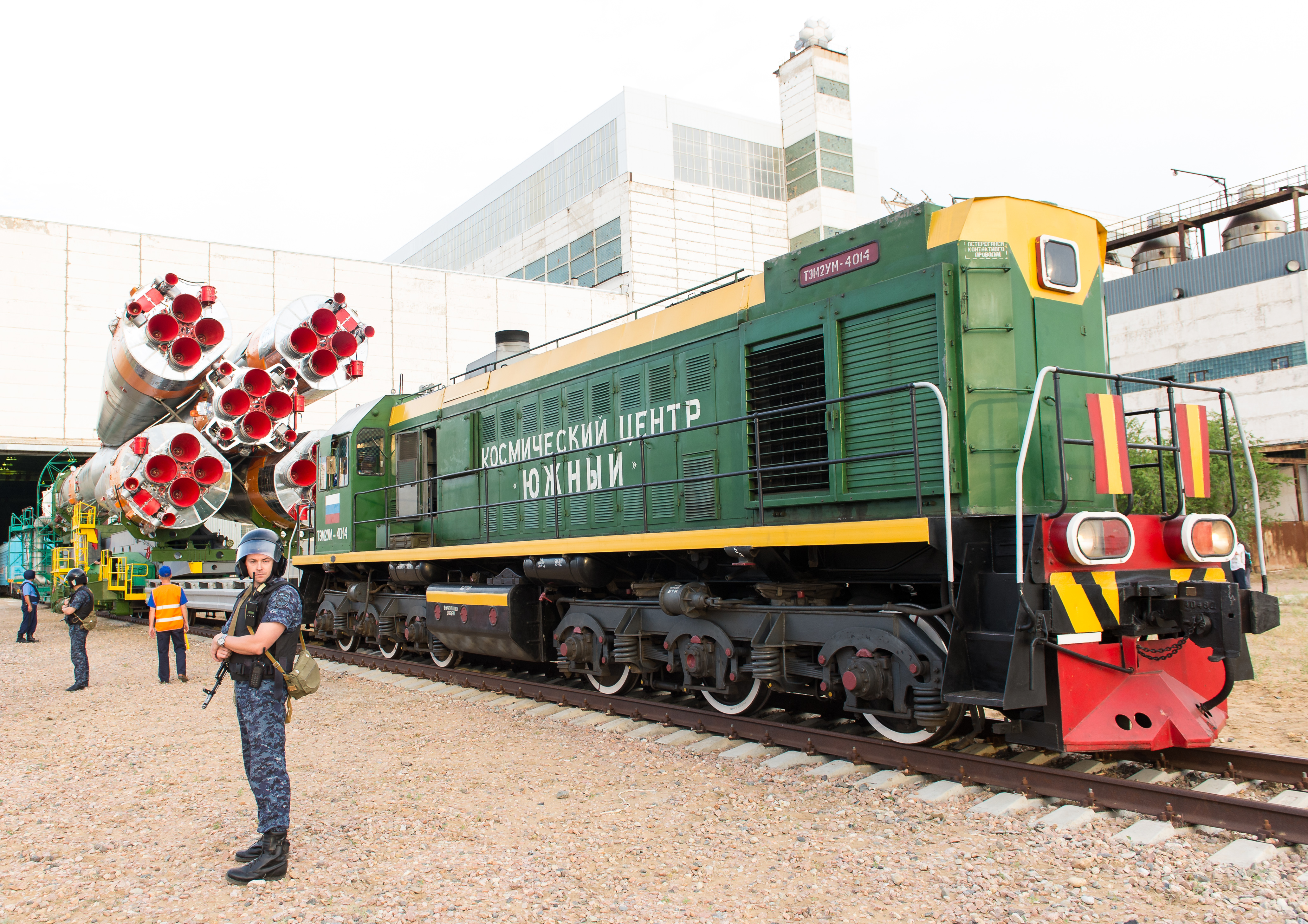 The Soyuz TMA-17M spacecraft is rolled out to the launch pad by train on Monday, July 20, 2015 at the Baikonur Cosmodrome in Kazakhstan. Launch of the Soyuz rocket is scheduled for July 23 and will carry Expedition 44 Soyuz Commander Oleg Kononenko of the Russian Federal Space Agency (Roscosmos), Flight Engineer Kjell Lindgren of NASA, and Flight Engineer Kimiya Yui of the Japan Aerospace Exploration Agency (JAXA) into orbit to begin their five month mission on the International Space Station.